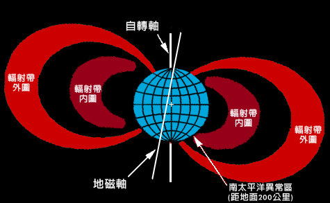 Van Allen radiation belt (in Chinese showing the SAA region)